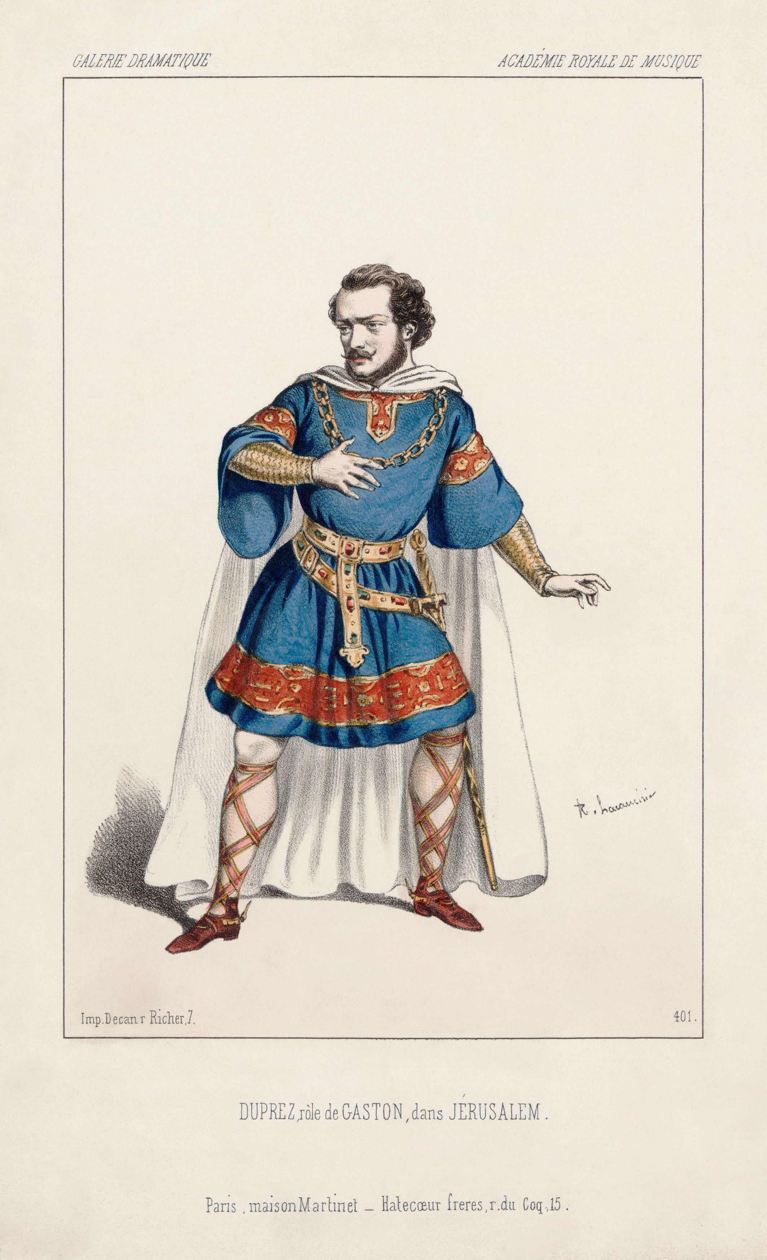 Gilbert Duprez (1806-1896) as Gaston in Giuseppe Verdi's Jérusalem at the Salle Le Peletier in Paris in 1847.